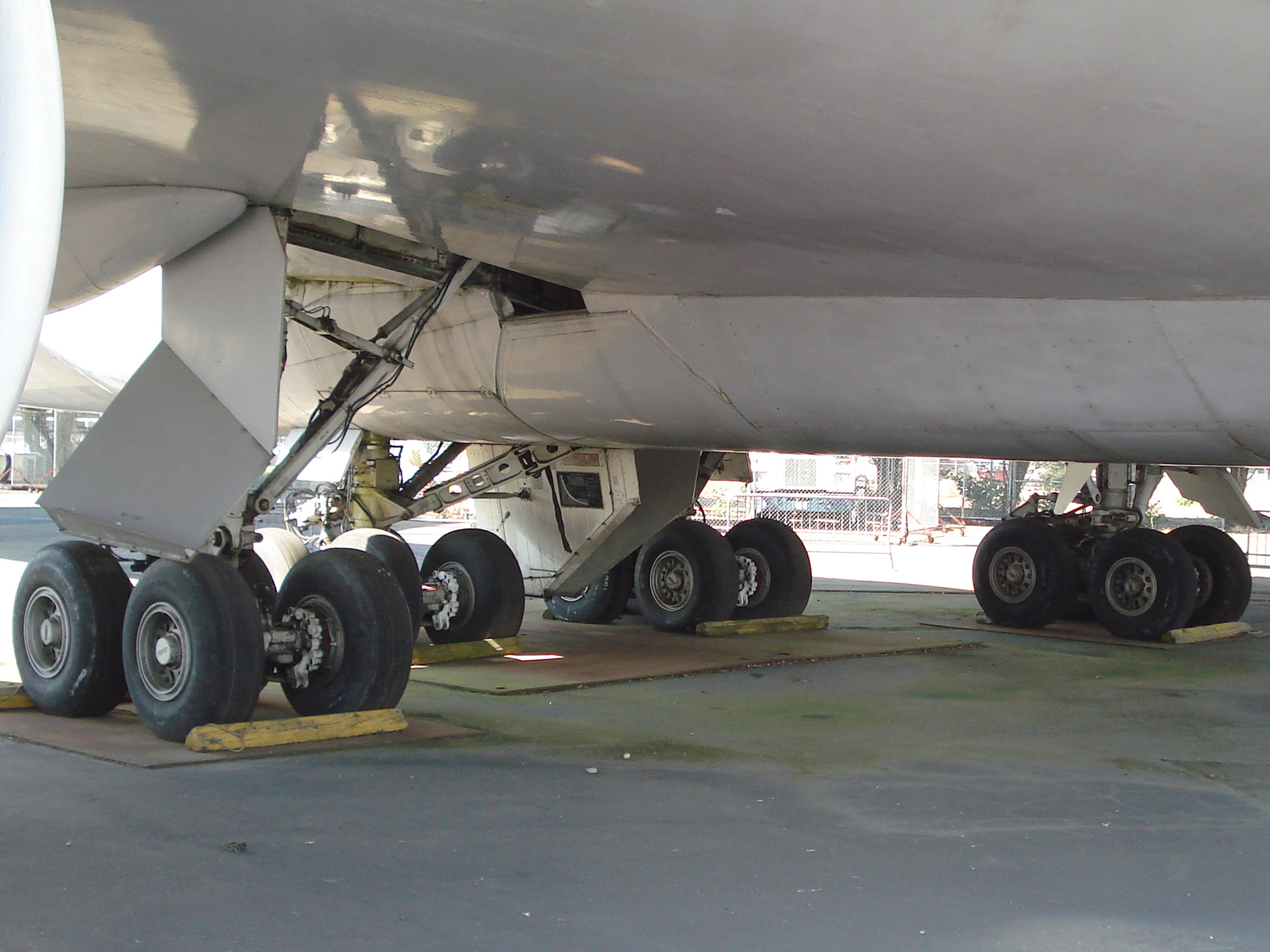 Boeing 747 main gear at the Museum of Flight